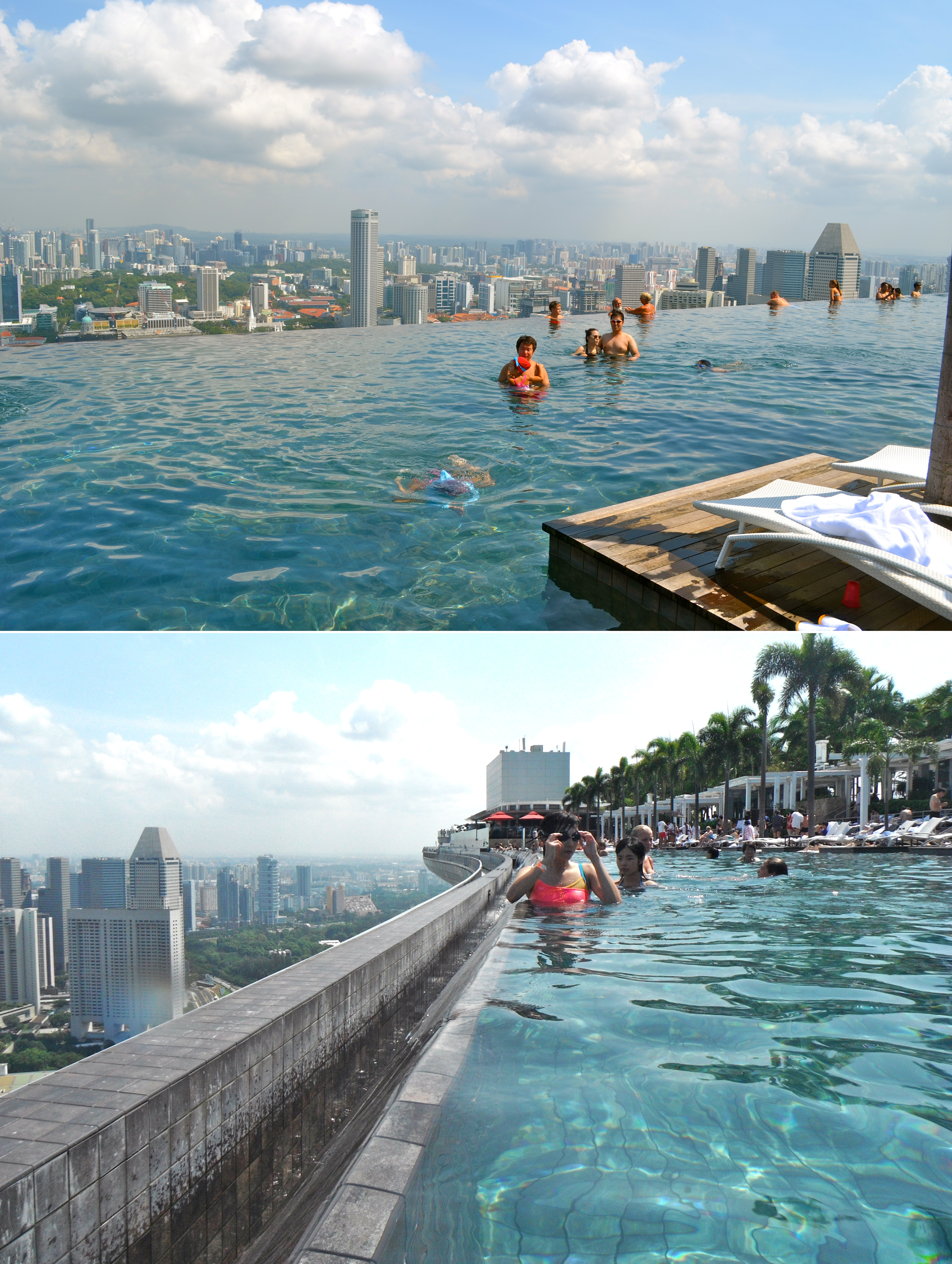 Montage of the SkyPark infinity pool at Marina Bay Sands.